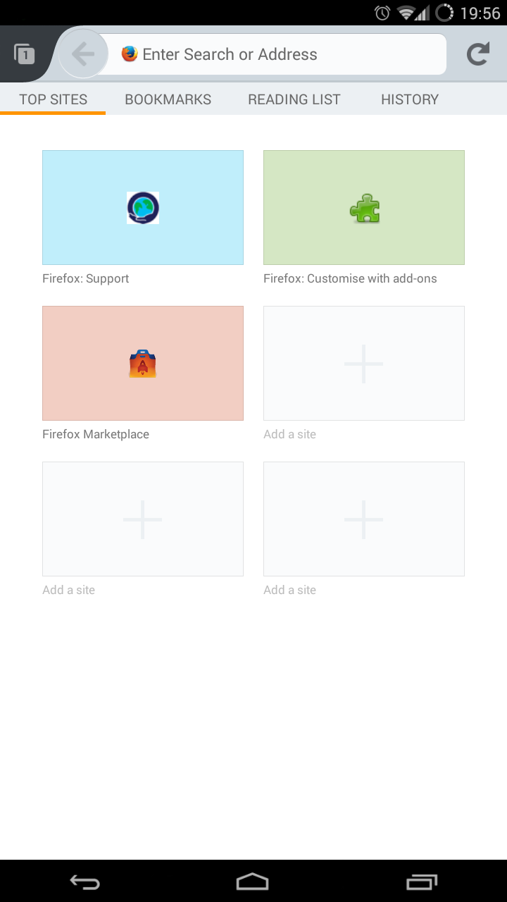 Firefox 31 on Android